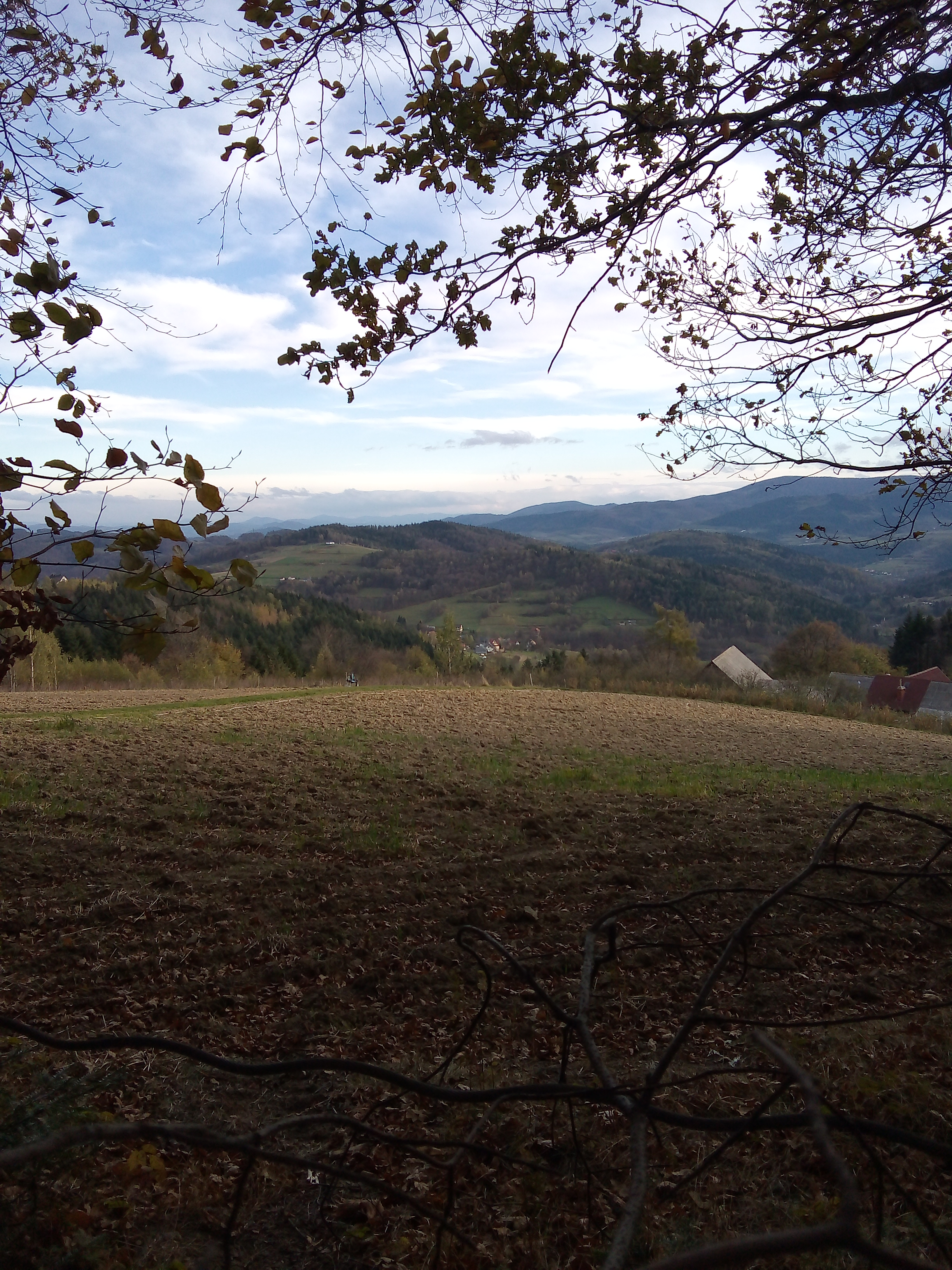 Widok na część zabudowań wsi Rozdziele (osiedle "We dworze"), górę Jastrząbka oraz część Pasma Łososińskiego.